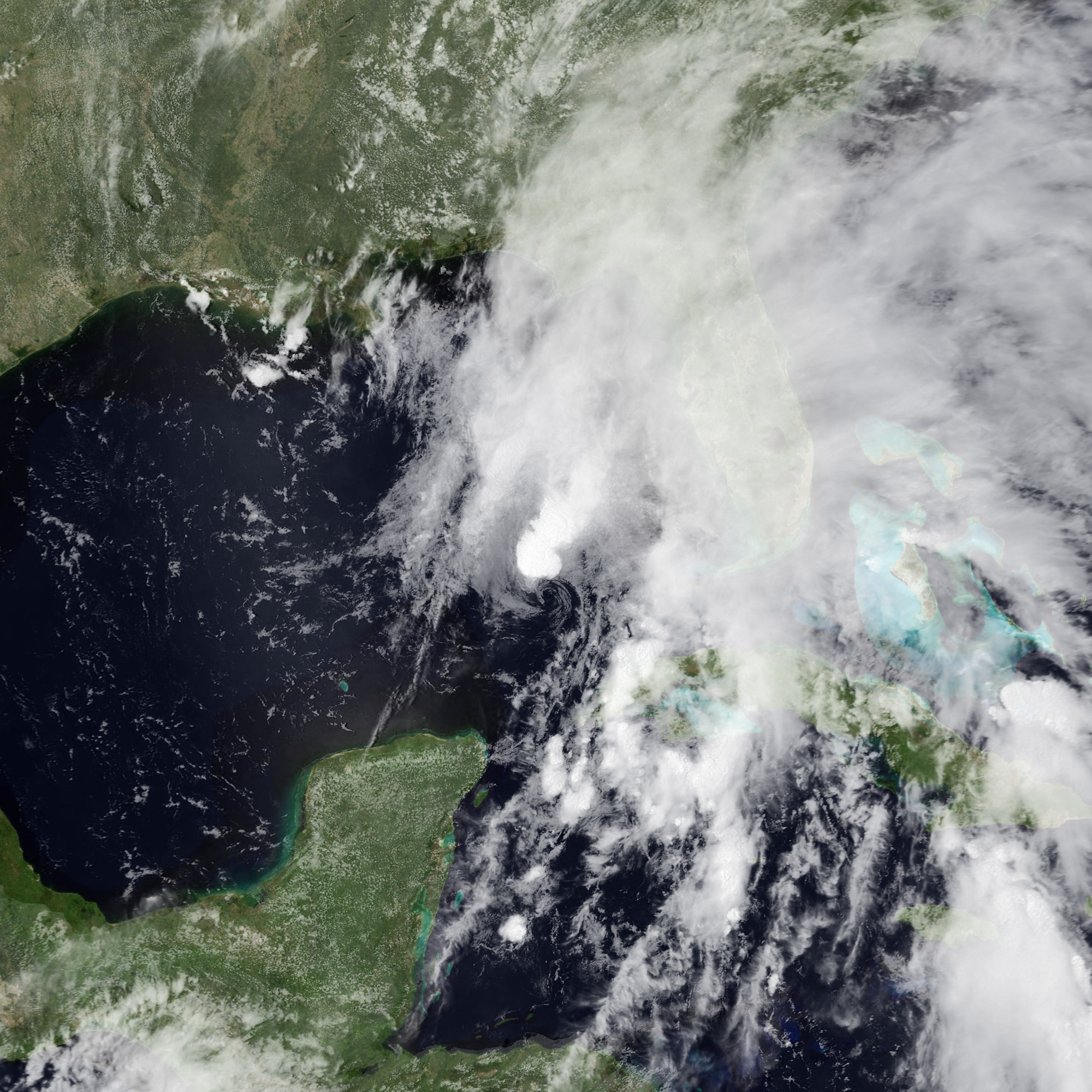 Tropical Storm Barry on June 1